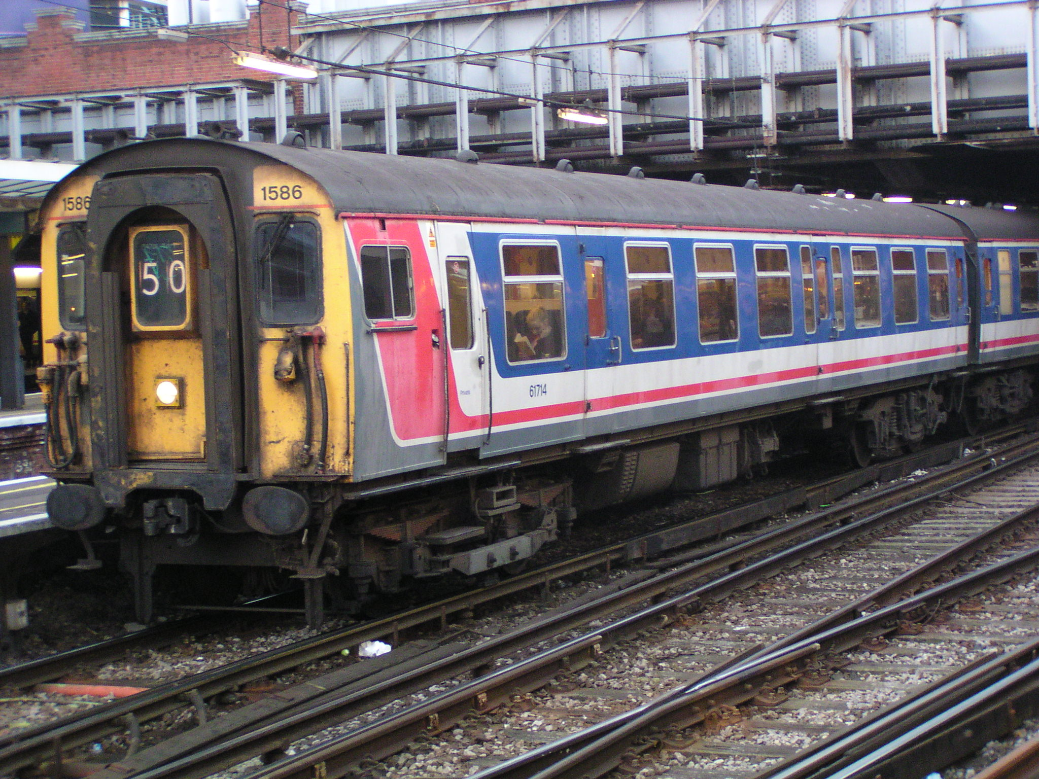 This image was copied from (Image:1586 at London Victoria.jpg). The original description was: BR Class 411, no. 1586, at London Victoria